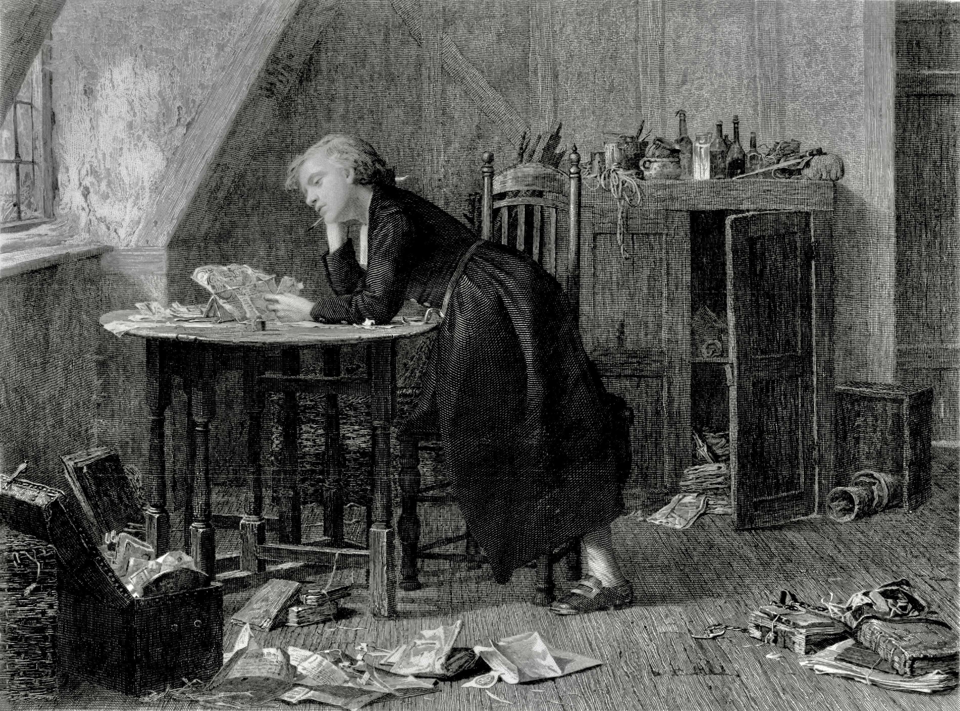 Chatterton's Holiday Afternoon: Thomas Chatterton (1752–1770)